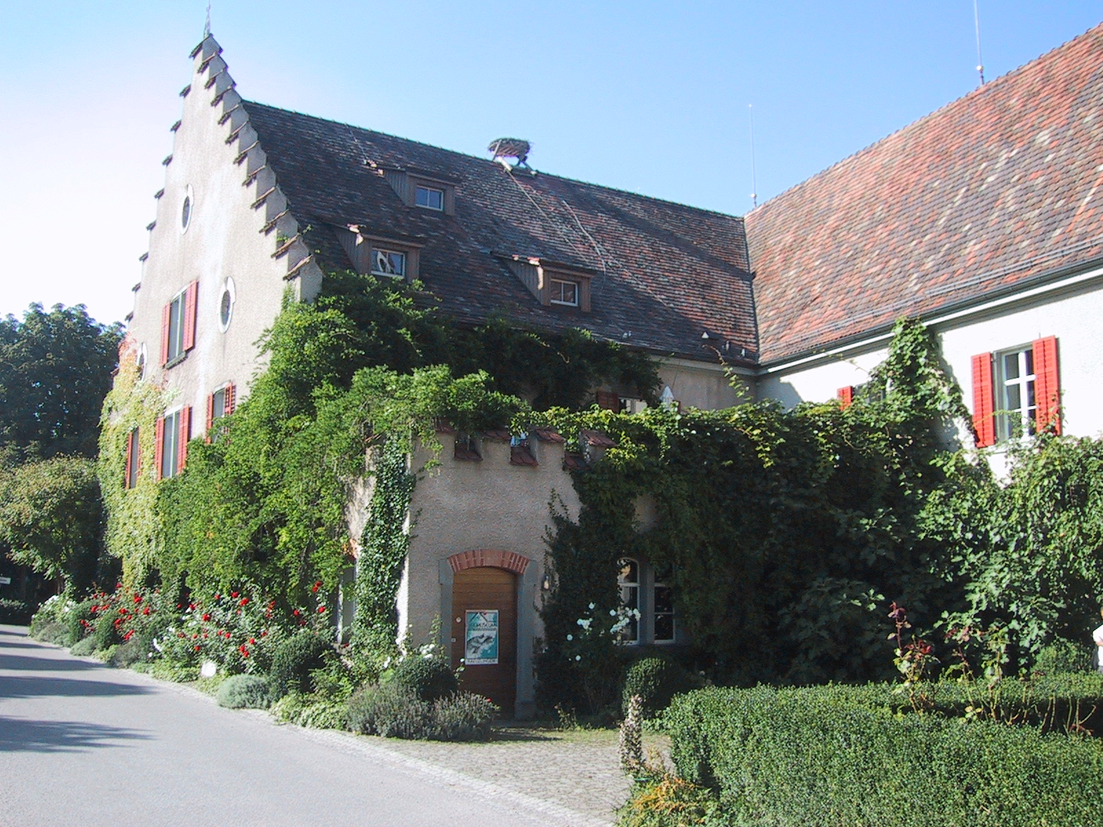 Lake museum in Kreuzlingen, canton of Thurgau. Former granary of Kreuzlingen Abbey.